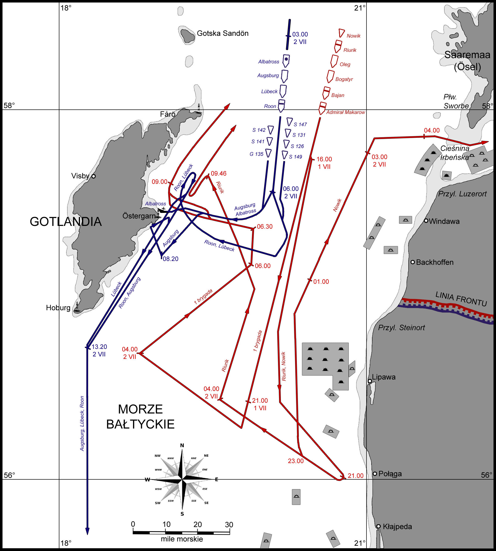 Russian fleet sortie towards Klaipėda and general overview of Battle of Gotland on July 2, 1915.